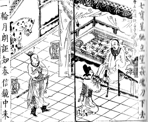 blade presentation